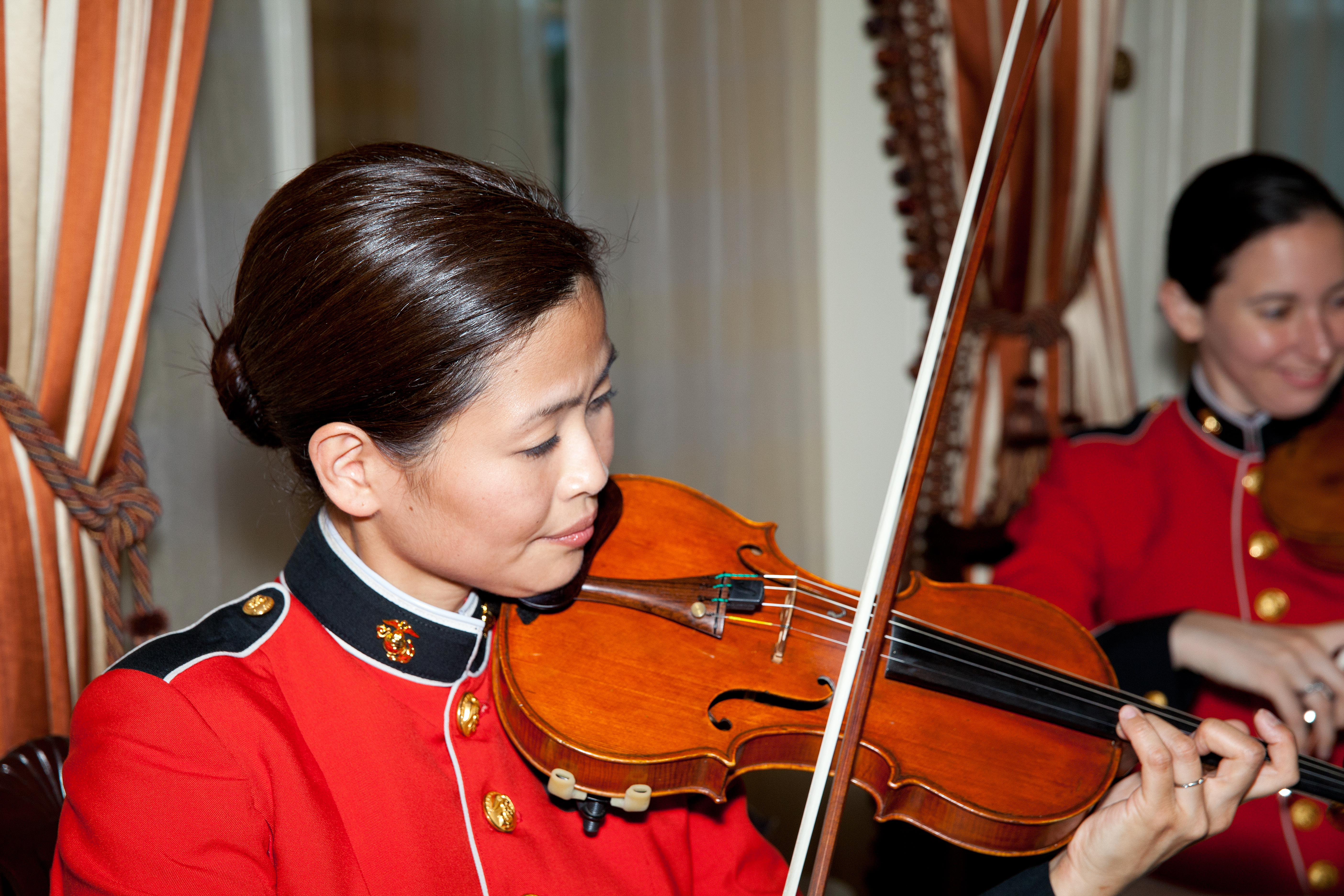 A member of the U.S. Marine Corps Band performs during the Evening Parade reception at the Home of the Commandants prior to the parade at Marine Barracks Washington in Washington, D.C., July 19, 2013. The Evening Parade, a tradition dating back to July 5, 1957, is offered to express the dignity and pride that represents more than two centuries of heritage for all Americans.